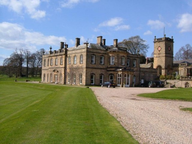 Hartforth Hall Hartforth Hall Hotel. The house was built in 1740 with early C 19 additon and a water tower built c.1850.